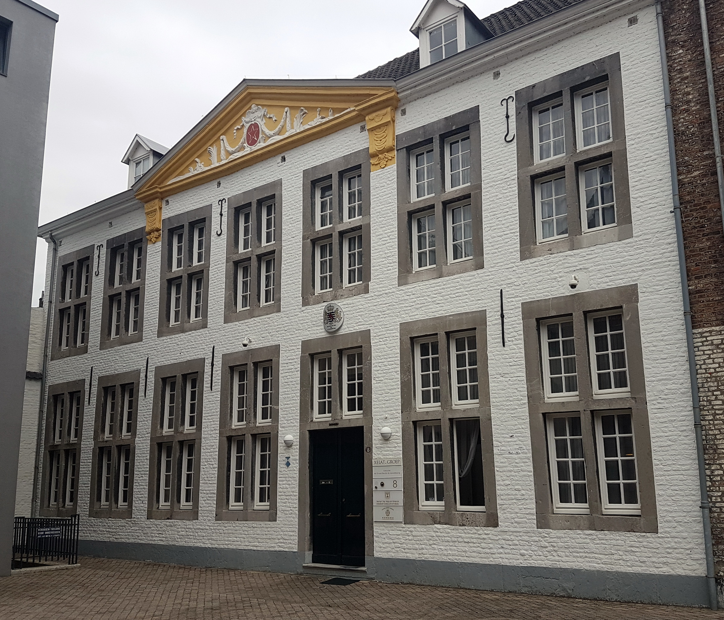 View of the former Latin school at Achter de Comedie in Maastricht, the Netherlands. The school was built on the site of the Jesuit monastery. In 1773 the Society of Jesus was suppressed by the pope and their monastery and schools were sold. Their church became the town's main theatre until 1992. Opposite the church, a section of the monastery from the late 16th-century survives. The school was probably built by the town in 1787, after the Jesuits had left, to fill in the educational gap. It is now an office building (consulate of the Grand-Duchy of Luxembourg, and other occupants).